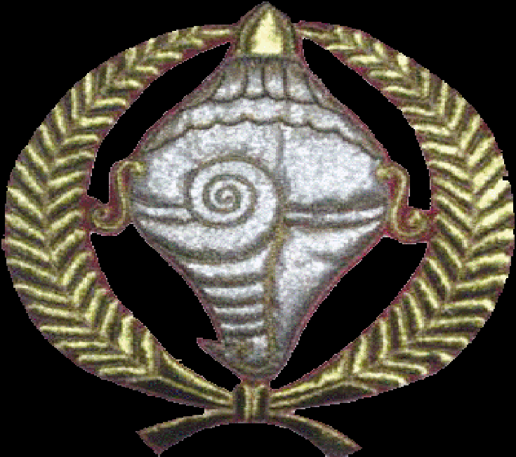 Flag of the Travancore Nair Brigade under a black background